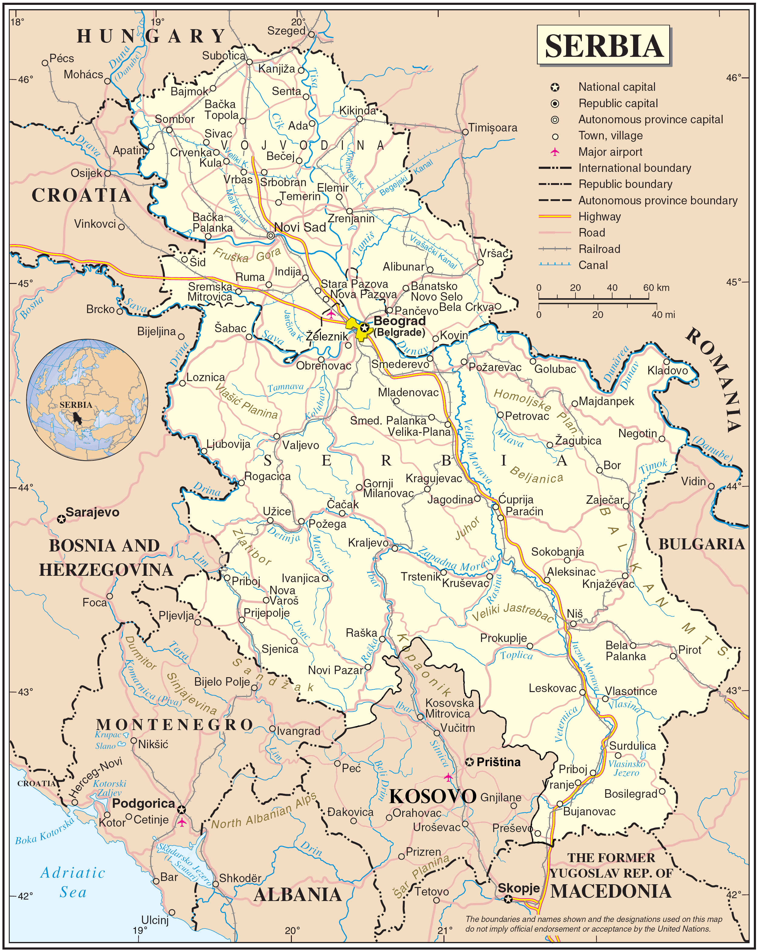 Map of Serbia without Kosovo